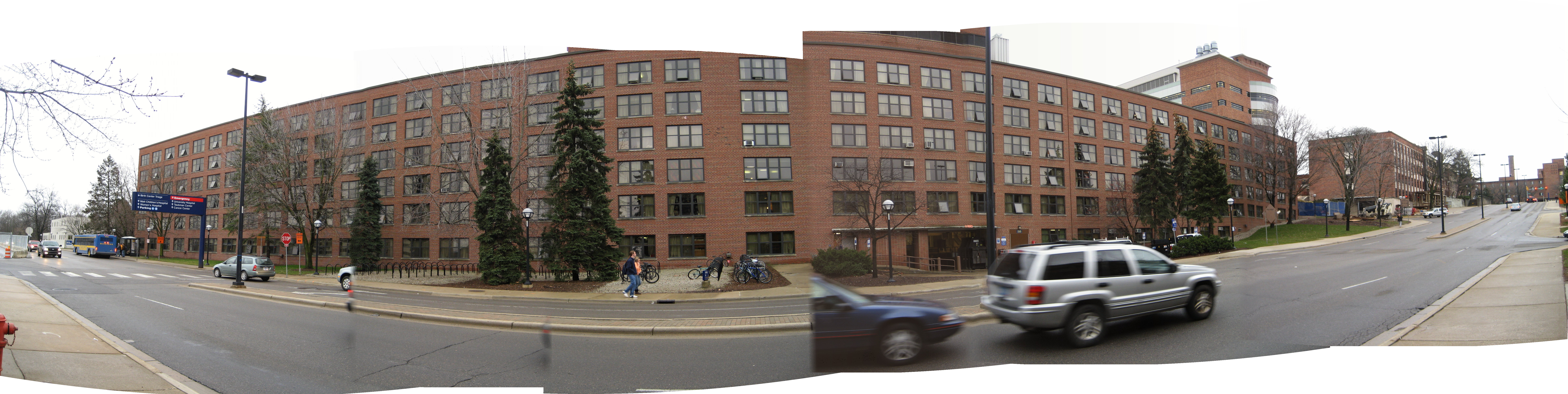 Mary Markley Hall panorama, taken from across the street, East Medical Center Drive, aimed at the back of the residence hall.